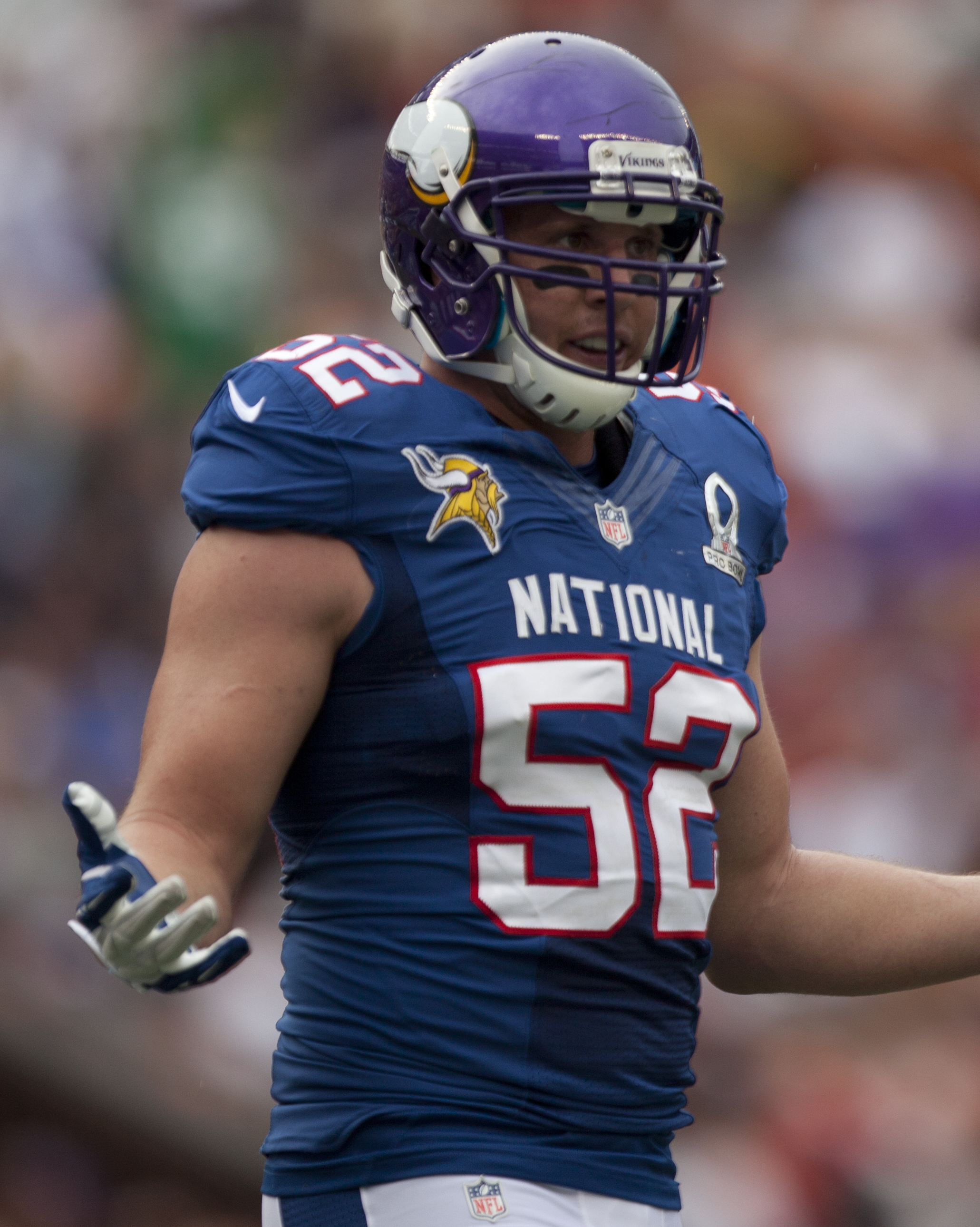 Minnesota Vikings Linebacker Chad Greenway reacts to a penalty call during the 2013 NFL Pro Bowl at Aloha Stadium, Hawaii January 27th, 2013. The sixty-third annual all-star game features fan-selected players from across the league. (U.S. Marine Corps photo by Lance Cpl. Kevin Jones/Released)